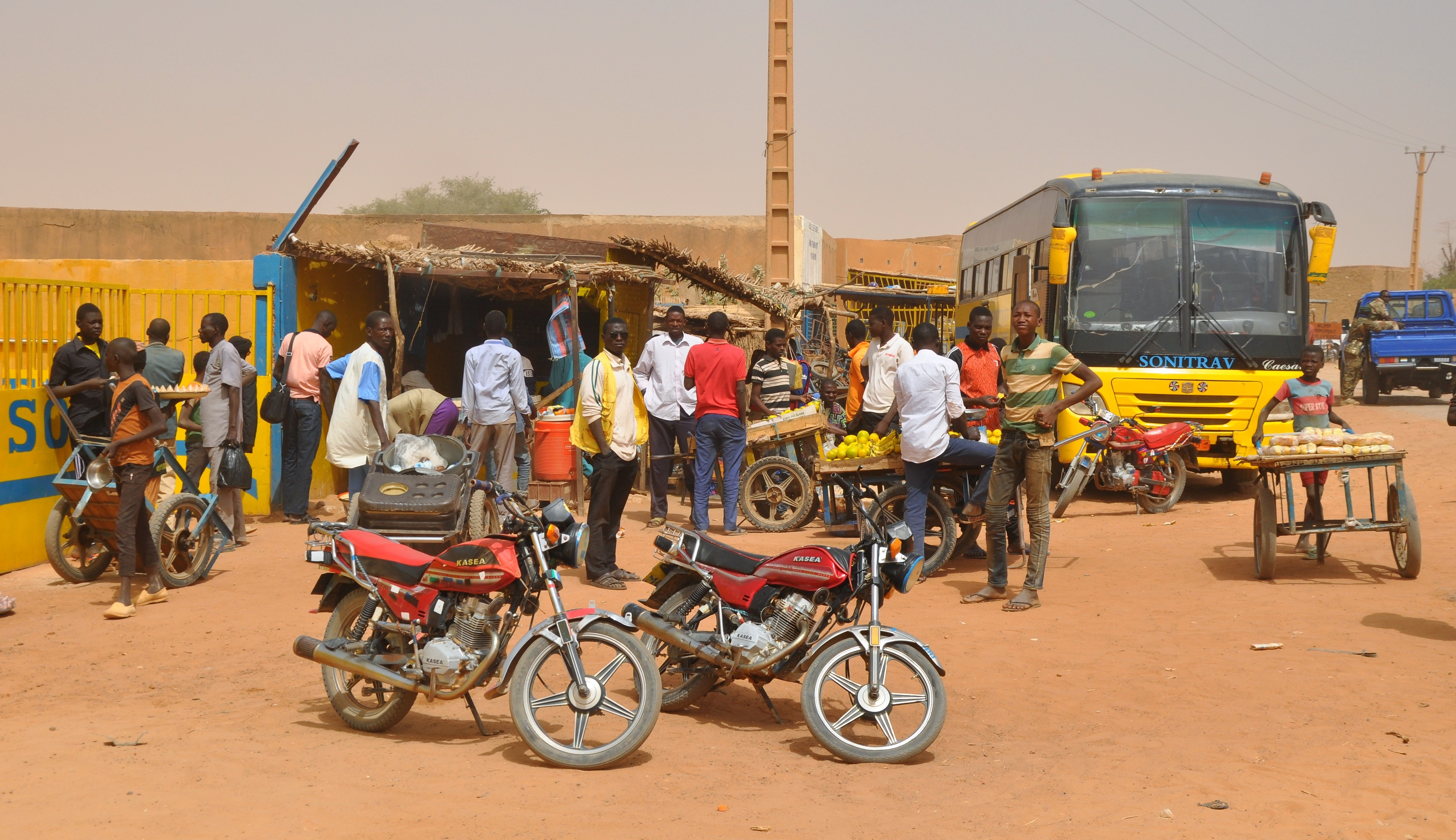 People waiting in front of the Sonitrav bus station in Filingué, Niger.